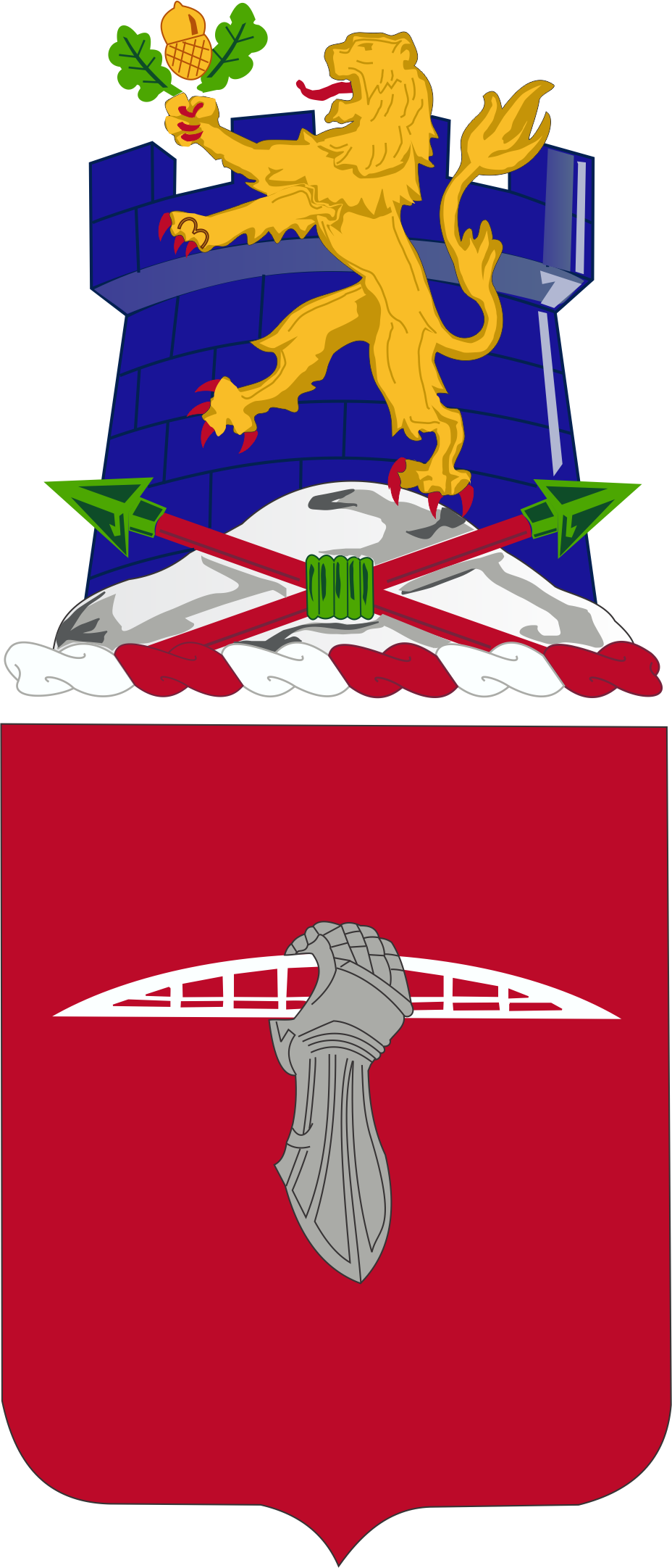 17th Engineer Battalion coat of arms. COAT OF ARMS: SHIELD: Gules, the back of a dexter mailed fist proper, grasping a portable ramp argent. CREST: On a wreath of the colors (argent and gules) an embattled tower azure issuant from a mound of snow proper supporting a lion rampant or, holding in dexter forepaw an acorn of the last, slipped and leaved vert, surmounting and extending above the tower and in base the upper part of two spears saltirewise, shafts of the second, heads vert and tied at the center of the like. The shield is red for Engineers. The mailed fist is indicative of the power and aggressive-ness of the organization while the portable ramp indicates one of its functions. World War II service during which it was awarded the Presidential Unit Citation is indicated by the blue embattled tower in the color of the citation streamer and signifies repeated attacks against fortified towns. The white mound refers to the heavy snow and icy conditions encountered during the Ardennes-Alsace campaign. The gold rampant lion is from the coat of arms of Belgium while the acorn with leaves alludes to the great forests of the Ardennes and to the oak, an emblem of courage. The colors green and red commemorate the Belgian fourragere awarded the unit and the two spears allude to service with the 2d Armored Division which spearheaded the drive into Belgium and pierced the enemy defenses in the Ardennes. The arrowheads on the spears also refer to assault landings in North Africa and Sicily during World War II.